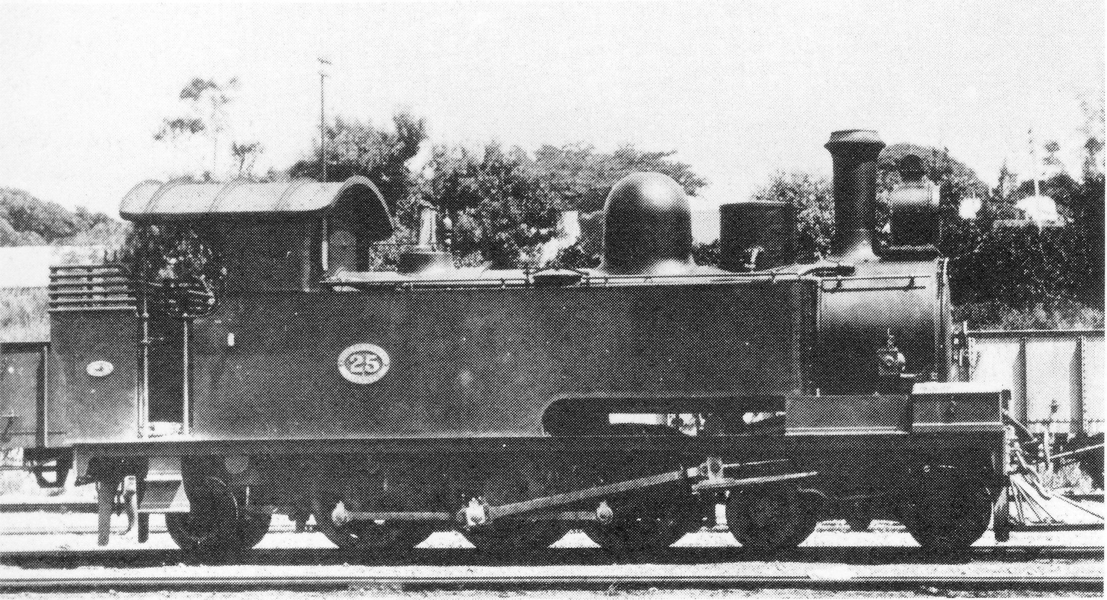 NGR 25, later renumbered NGR 38, then SAR Class C1 77 (4-6-2T)